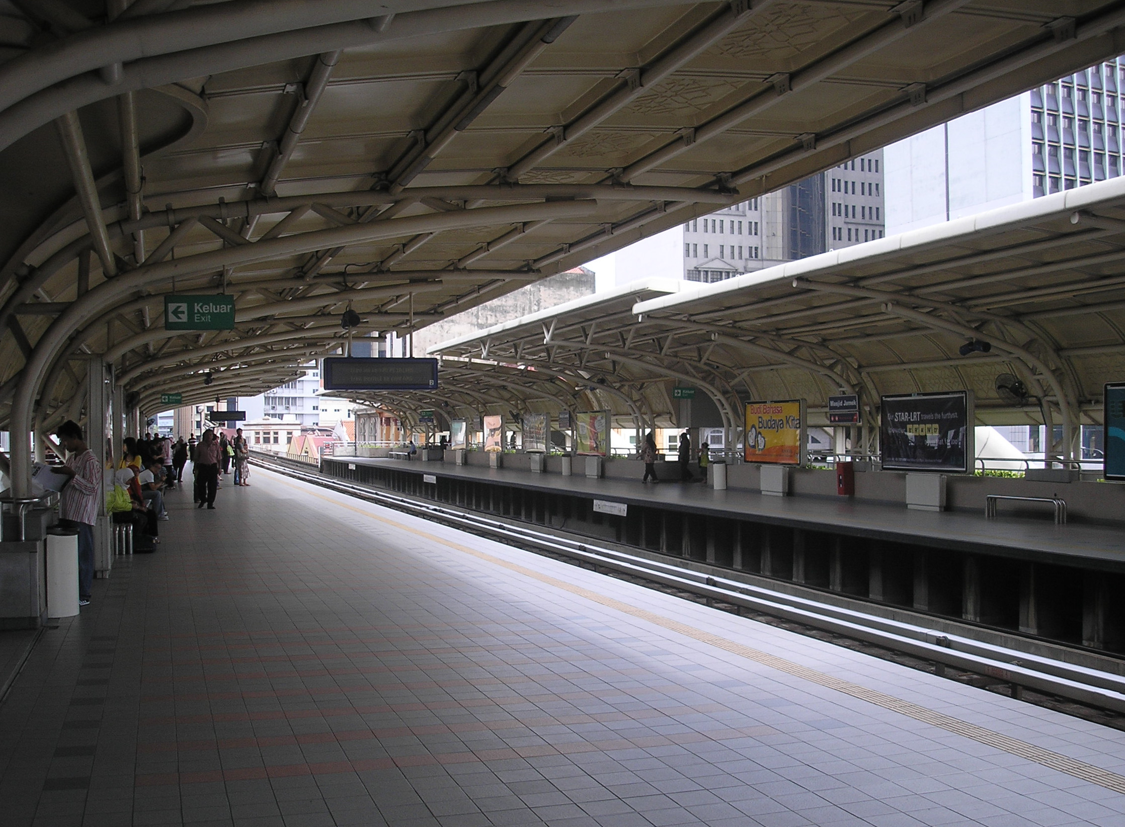 A platform view of Masjid Jamek station (Ampang Line), in Kuala Lumpur, Malaysia.